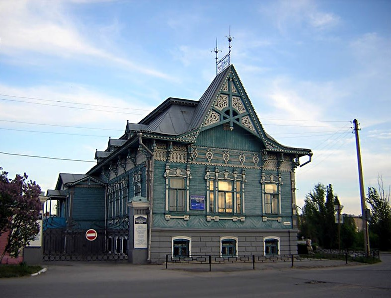 Syzran, Samara Oblast. 2 Ulitsa Sverdlova. Former mansion of the merchant M.V. Chernukhin, now exhibition hall, built in 1908-10.